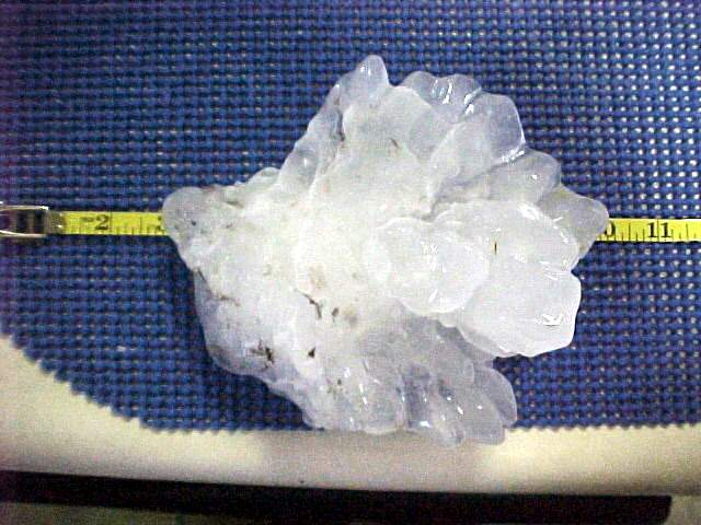 At the time of this photo, this was the largest hailstone ever recovereds, 7 inches in diameter and almost 19 inches in circumference. This record has since been surpassed ([1]).